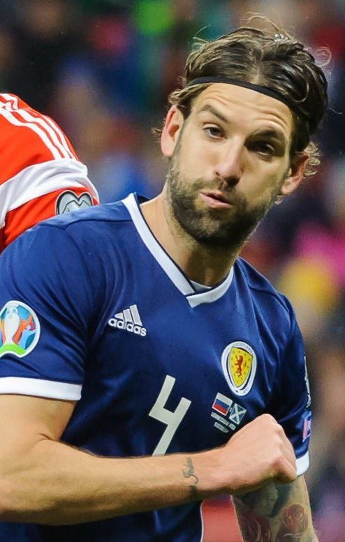 Scottish footballer on 10 October 2019, during the 2020 UEFA European Championship qualifying match between Scotland and Russia in Moscow.